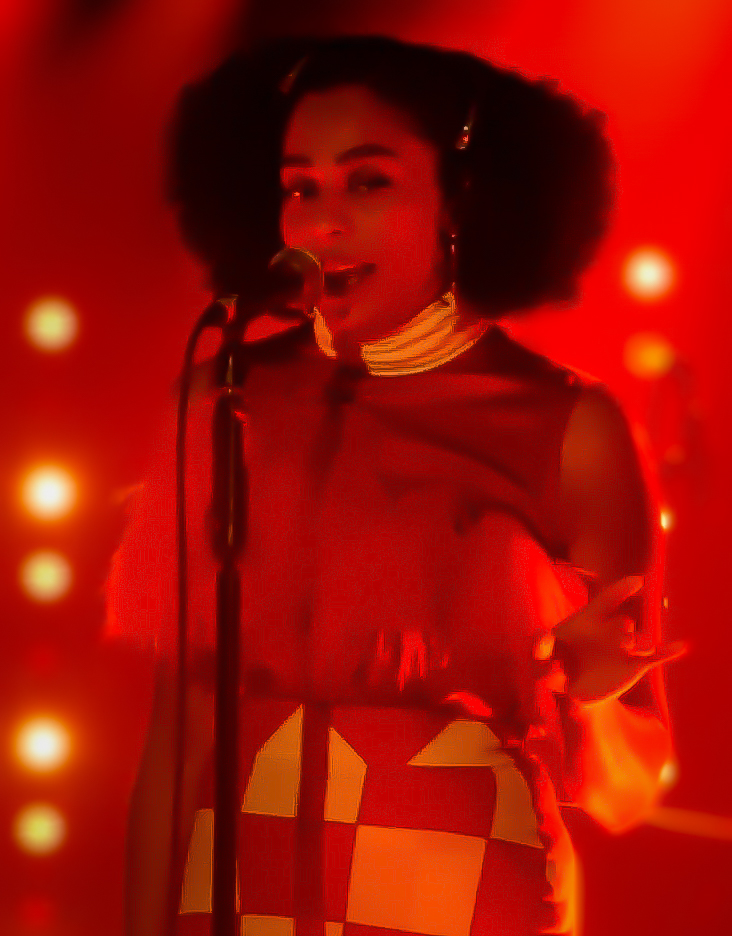 Celeste performing "Lately" at her residency in London in November 2019